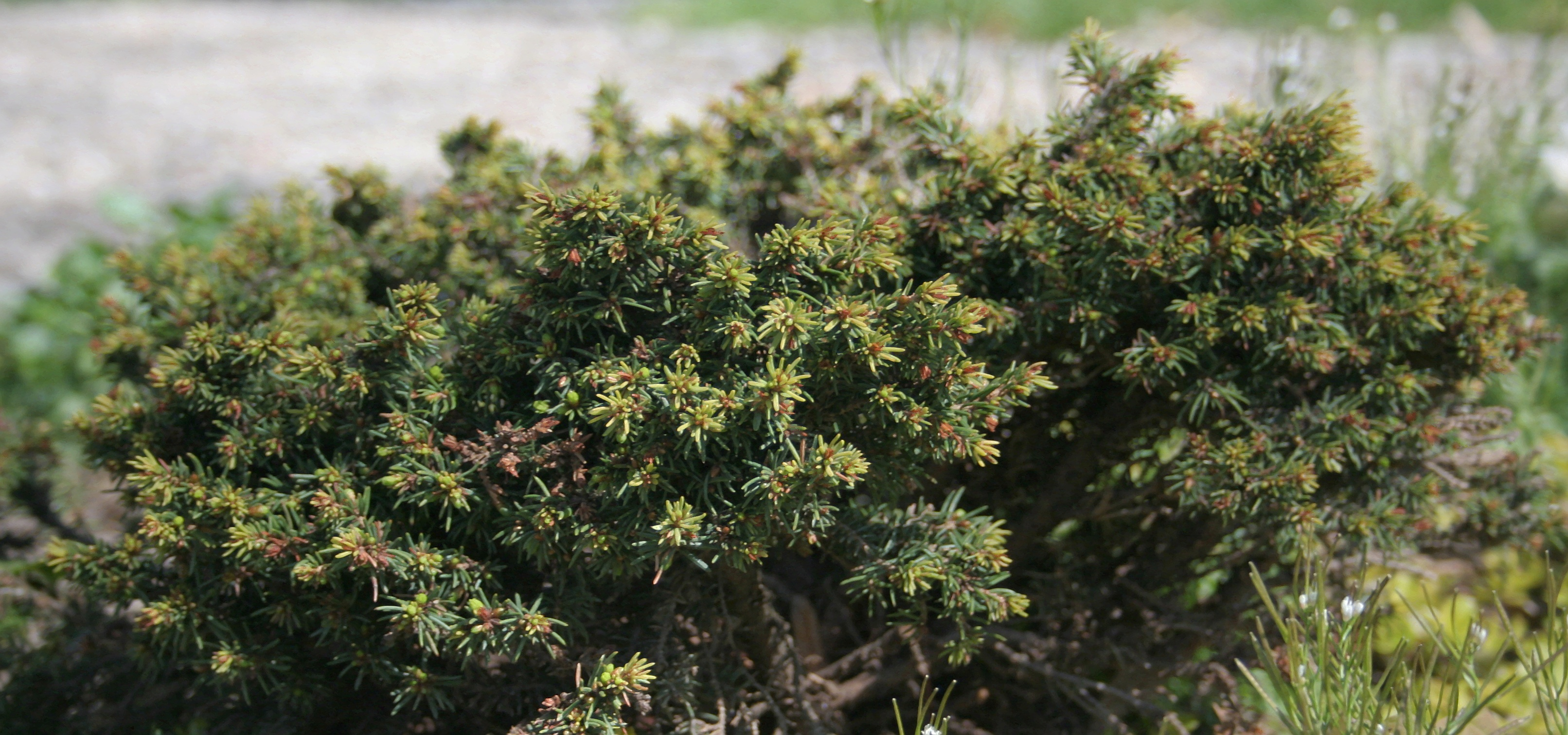 Norway Spruce (Picea abies cv. Little Gem) in Jasło, Poland.